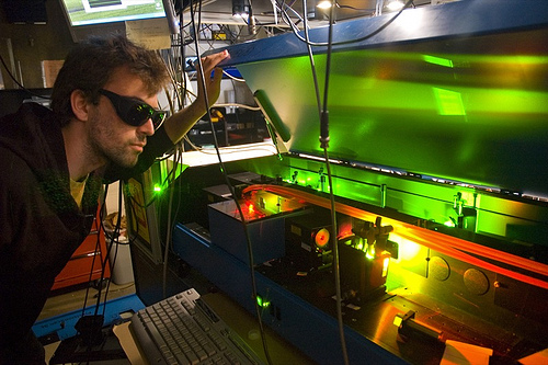 Senior Engineering Physics student Dan Lobser overlooks a doubled pulse dye laser while taking data for his experiment in the Physics building. Meanwhile, his boss Heather Lewandowski, an associate JILA fellow, is attending DAMOP, a major conference regarding Atomic, Molecular, and Optical Physics. This ran page 1 on the Colorado Daily in Boulder on May 29, 2008.